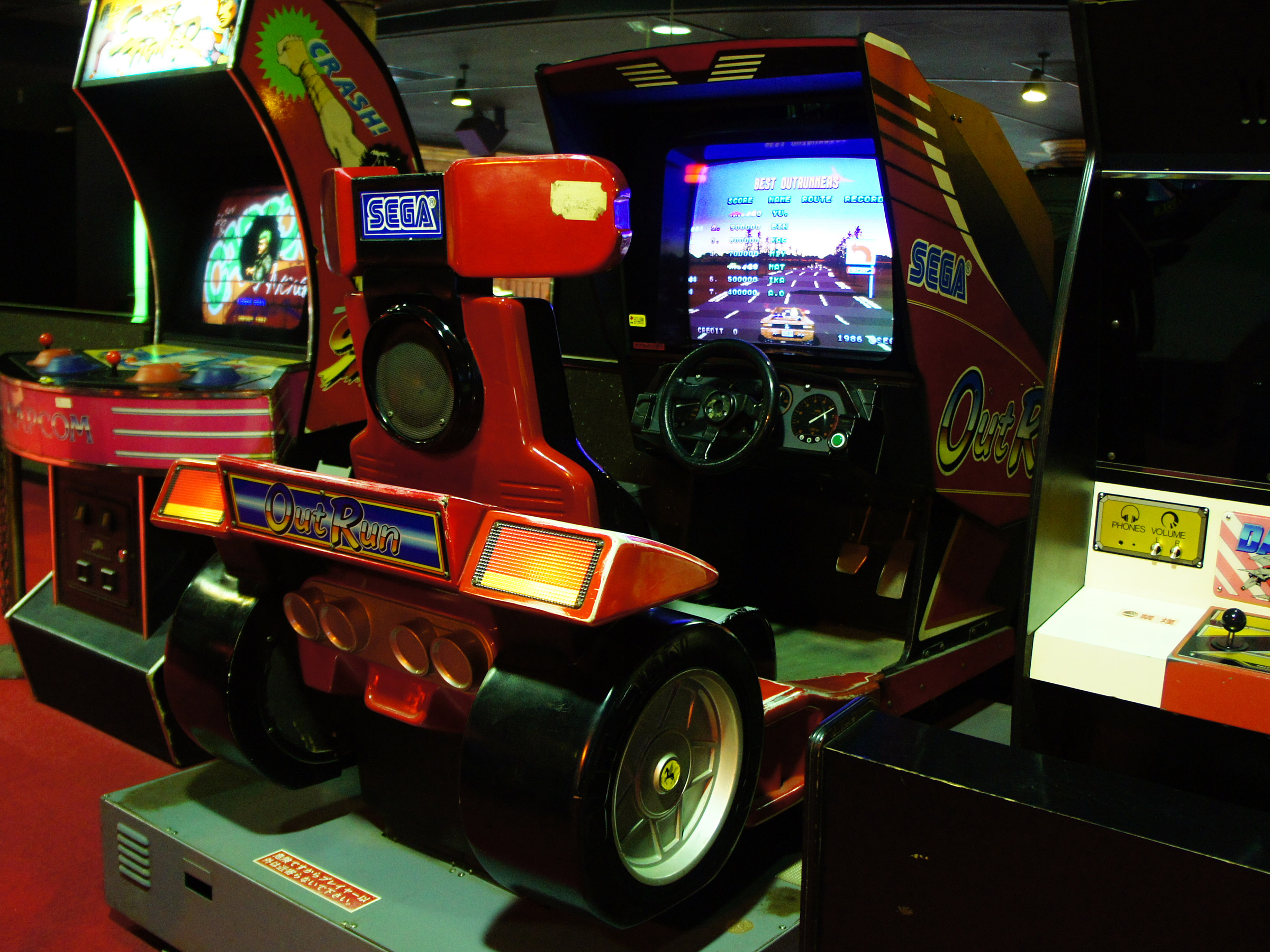 SEGA's OUTRUN.